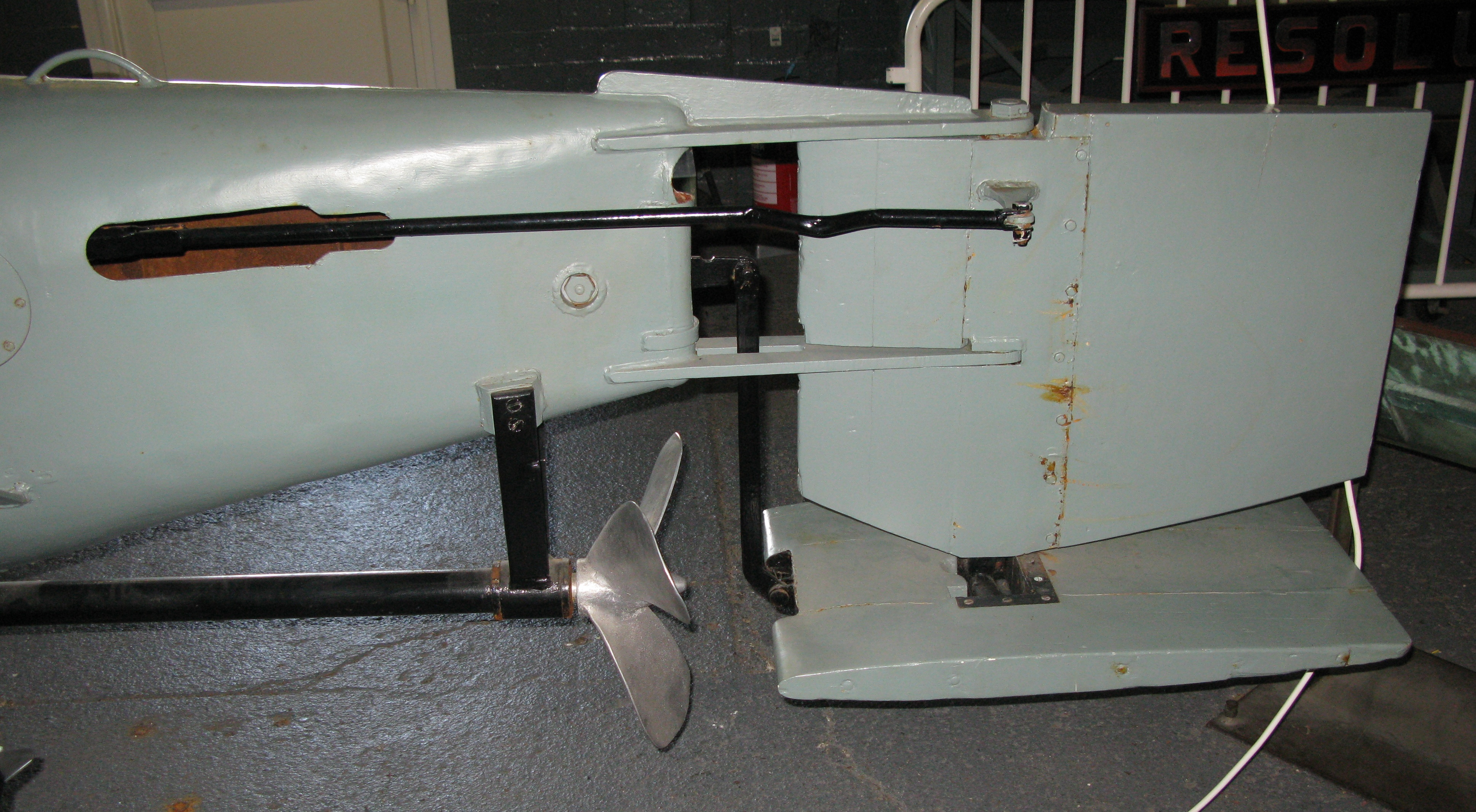 Photo of the control surfaces and propeller of biber 105